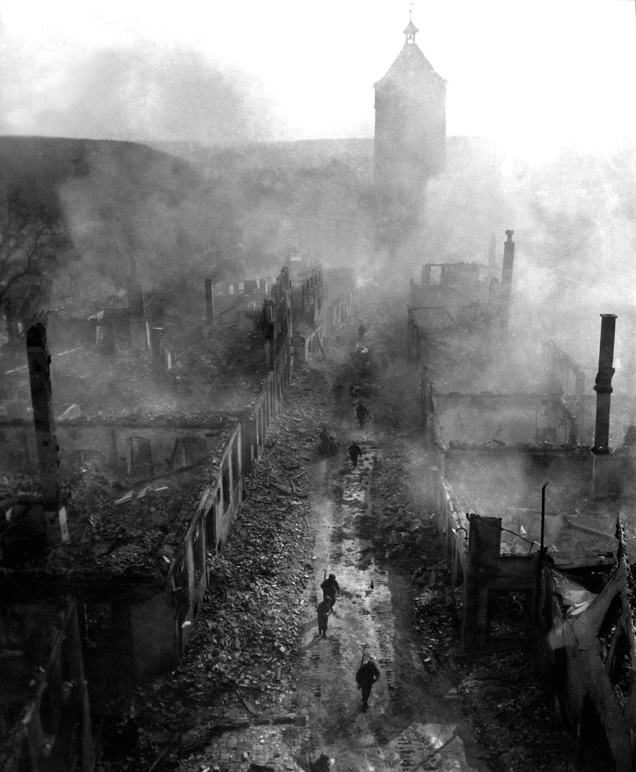 "Infantrymen of the 255th Infantry Regiment move down a street in Waldenburg to hunt out the Hun after a recent raid by 63rd Division".